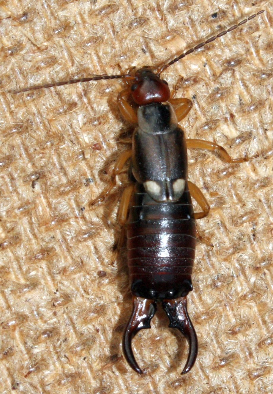 Male common earwig Forficula auricularia